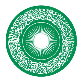 The official seal of the Aga Khan University.